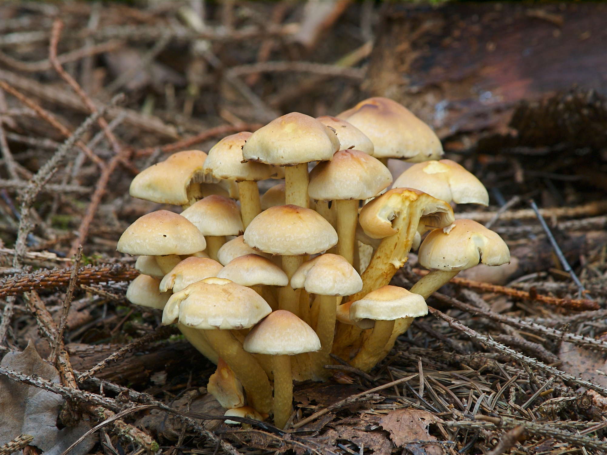 Sulphur Tuft (Hypholoma fasciculare), Burkhardtsdorf, Germany.